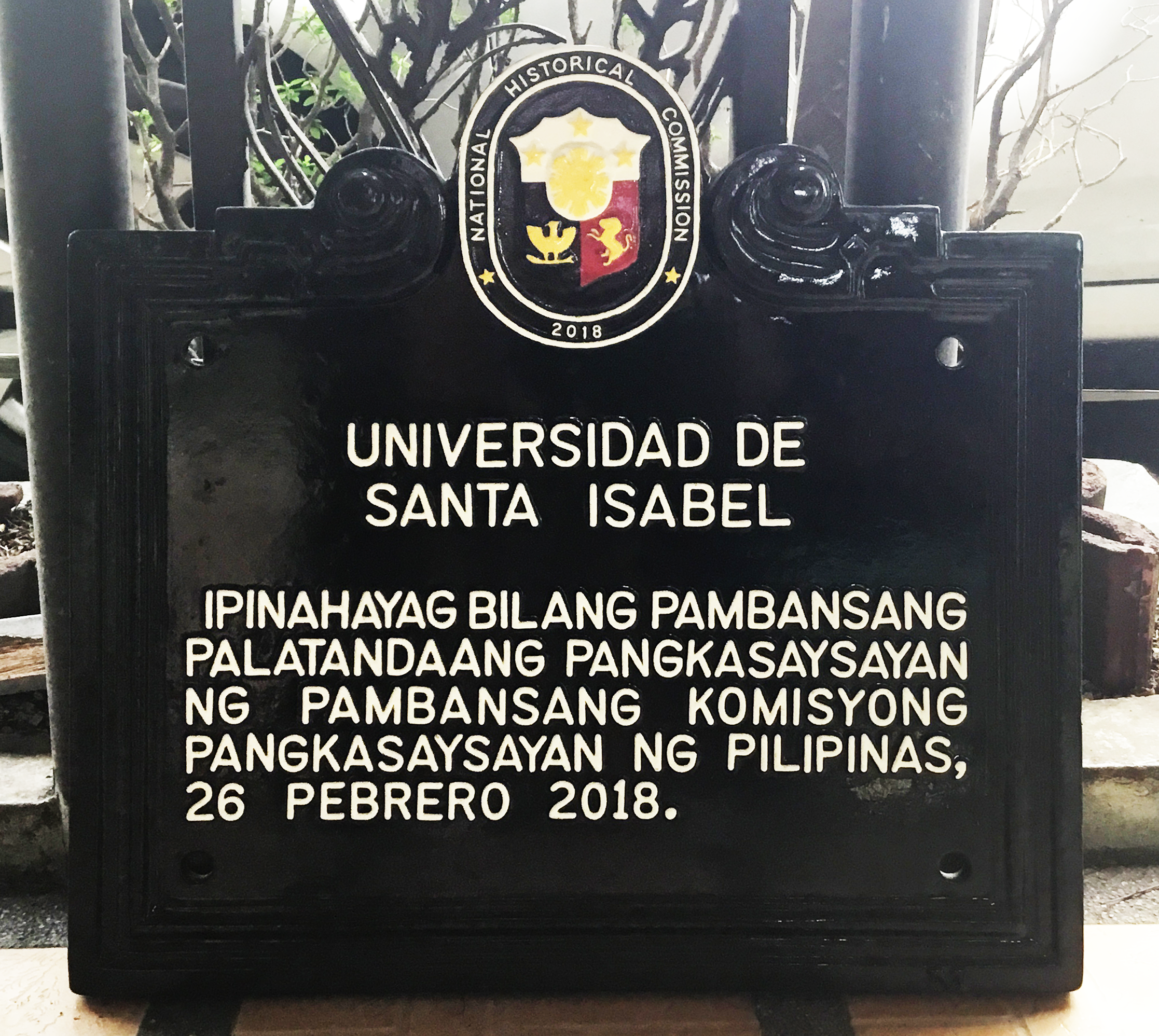 Universidad de Santa Isabel NHCP Historical Marker